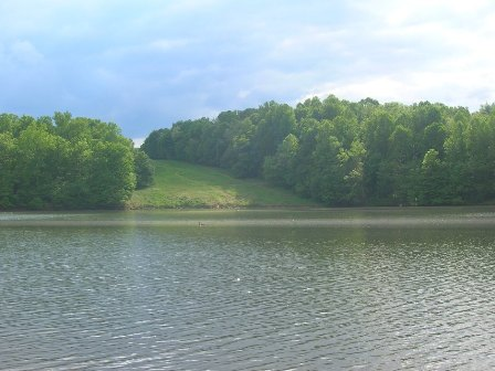 A photograph of Lake Needwood in Derwood, Maryland, taken on May 12, 2006.